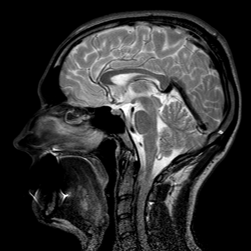 Head MRI in sagittal plane, T₂ weighted. Enlarged inferior sagittal sinus without clincal relevance.